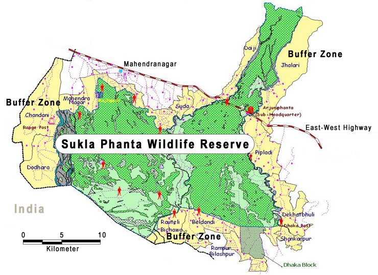 Map of Sukla Phanta Wildlife Reserve and Bufferzone, Nepal